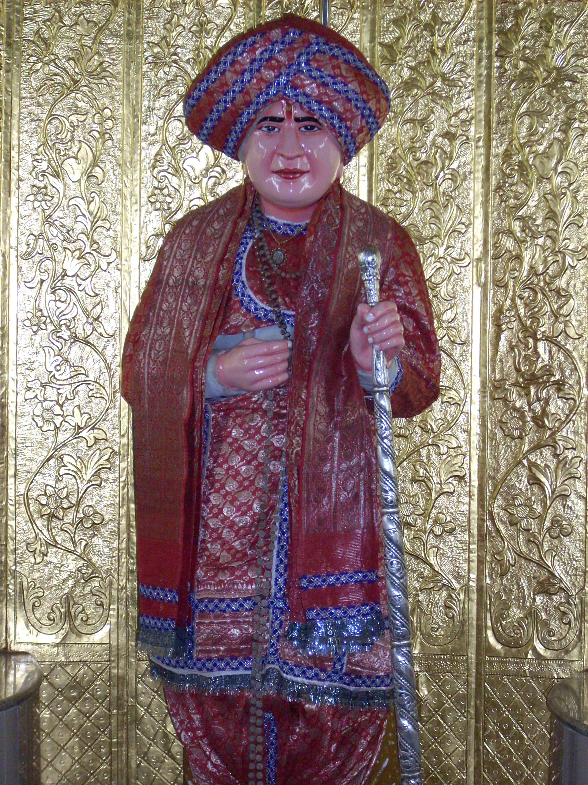 An Idol of Jalaram Bapa at a Temple in Vadodara, Gujarat, decorated in colorful clothes on eve of Jalaram Jayanti (birth celeration of saint)